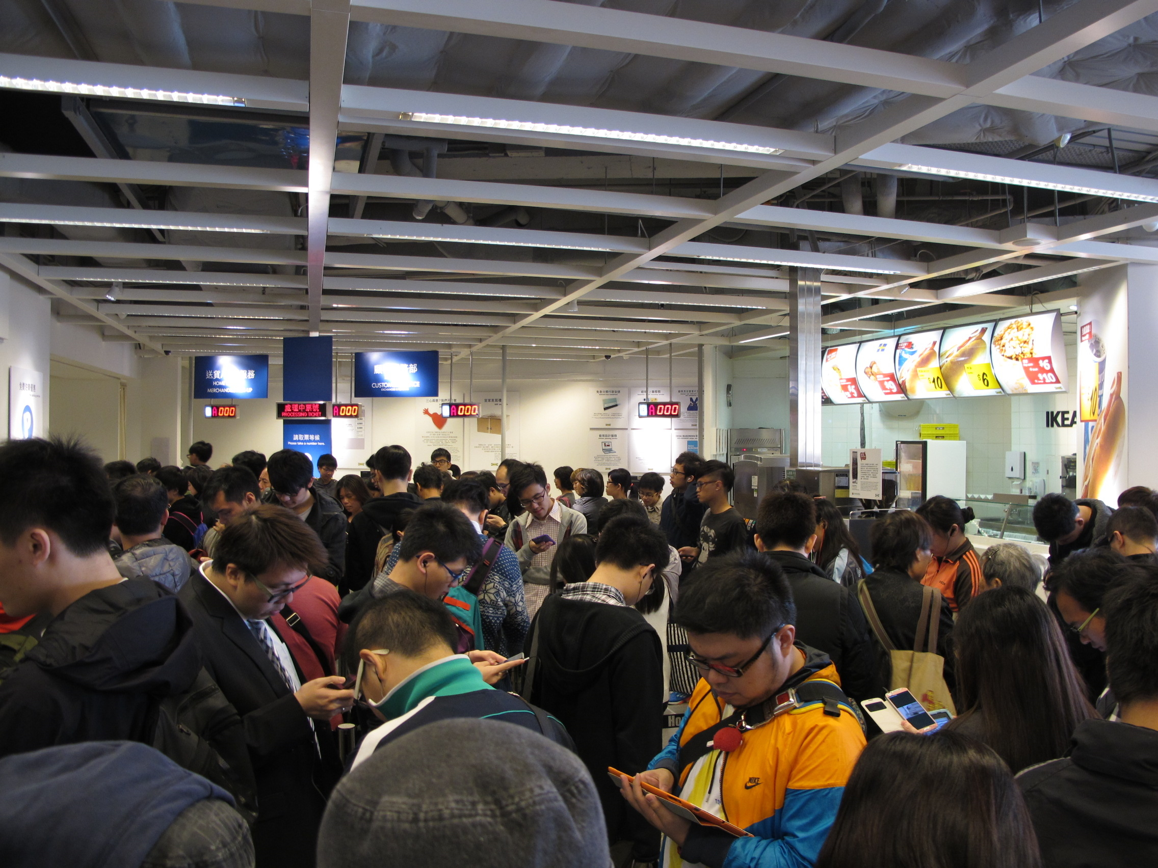 Lufsig Buyers in Shatin IKEA